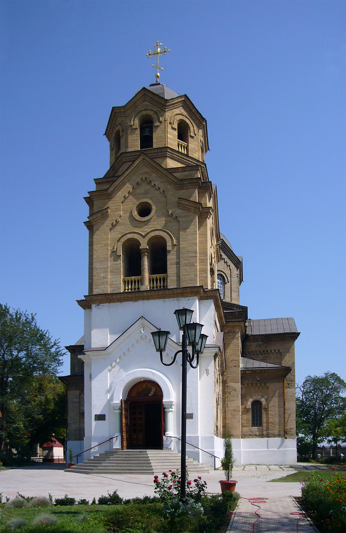 St. Elias Church (Greek Church) (built 1911-1918; architect Adam L. Genrikh) in Eupatoria, Crimea, Ukraine